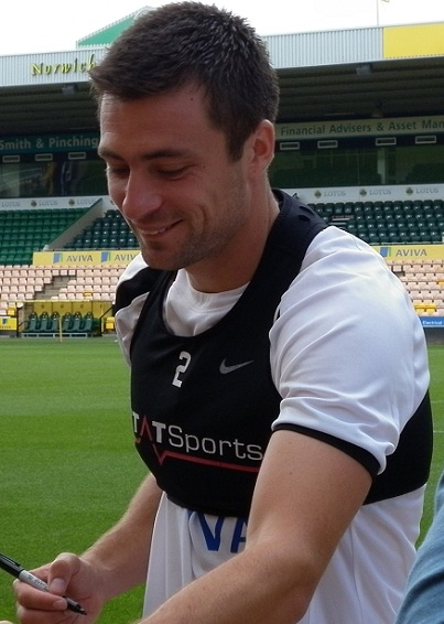 Russell Martin at Norwich City's open training session on 9 August 2012.